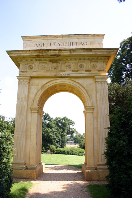 The Doric Arch, Stowe, Buckinghamshire